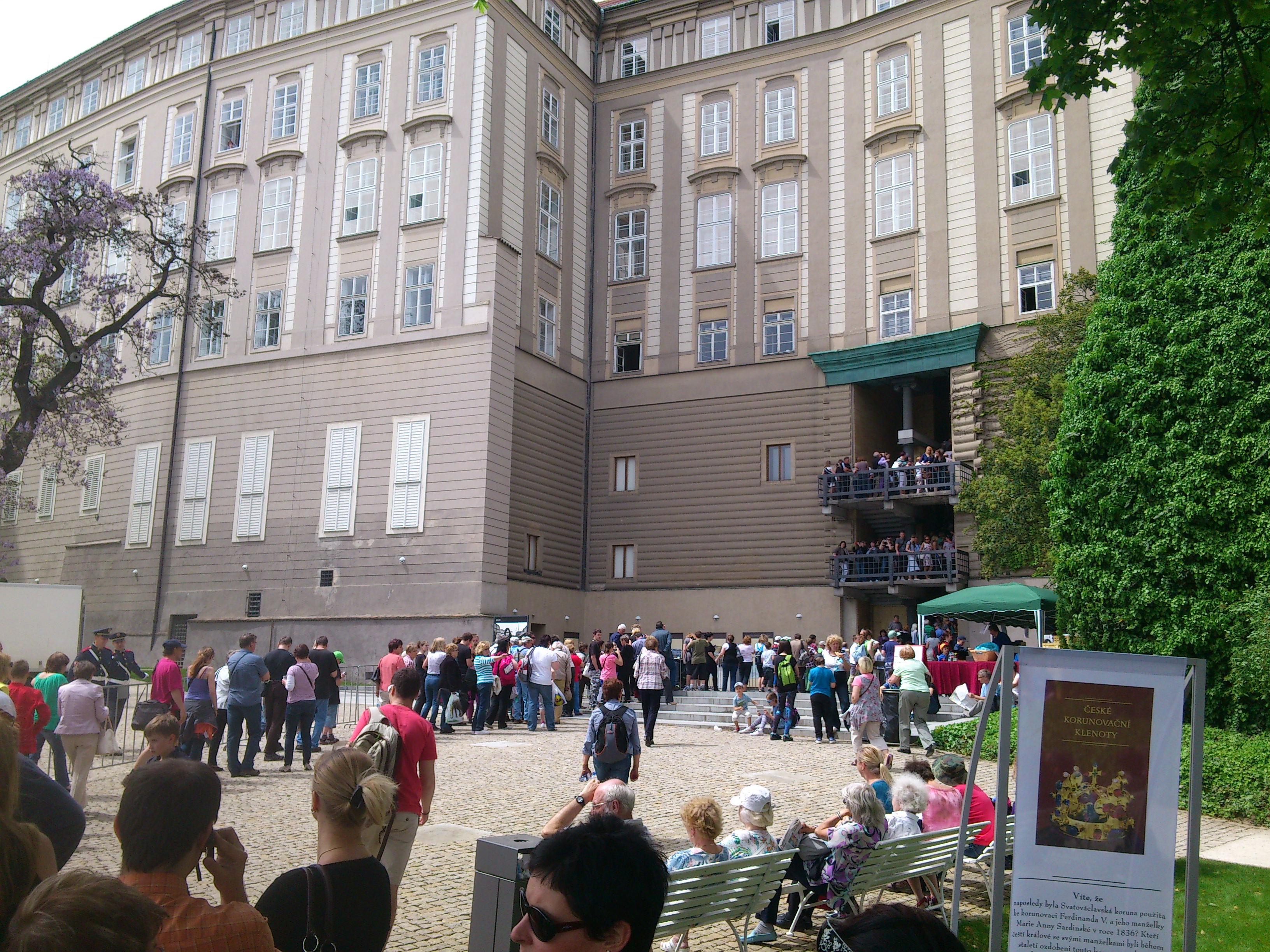 Queue to view the Czech Crown Jewels (2013)